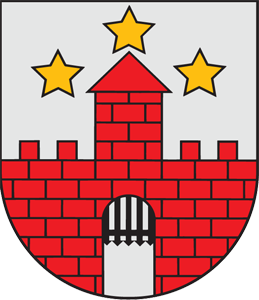 Coat of arms of the city of Aizpute, Latvia.